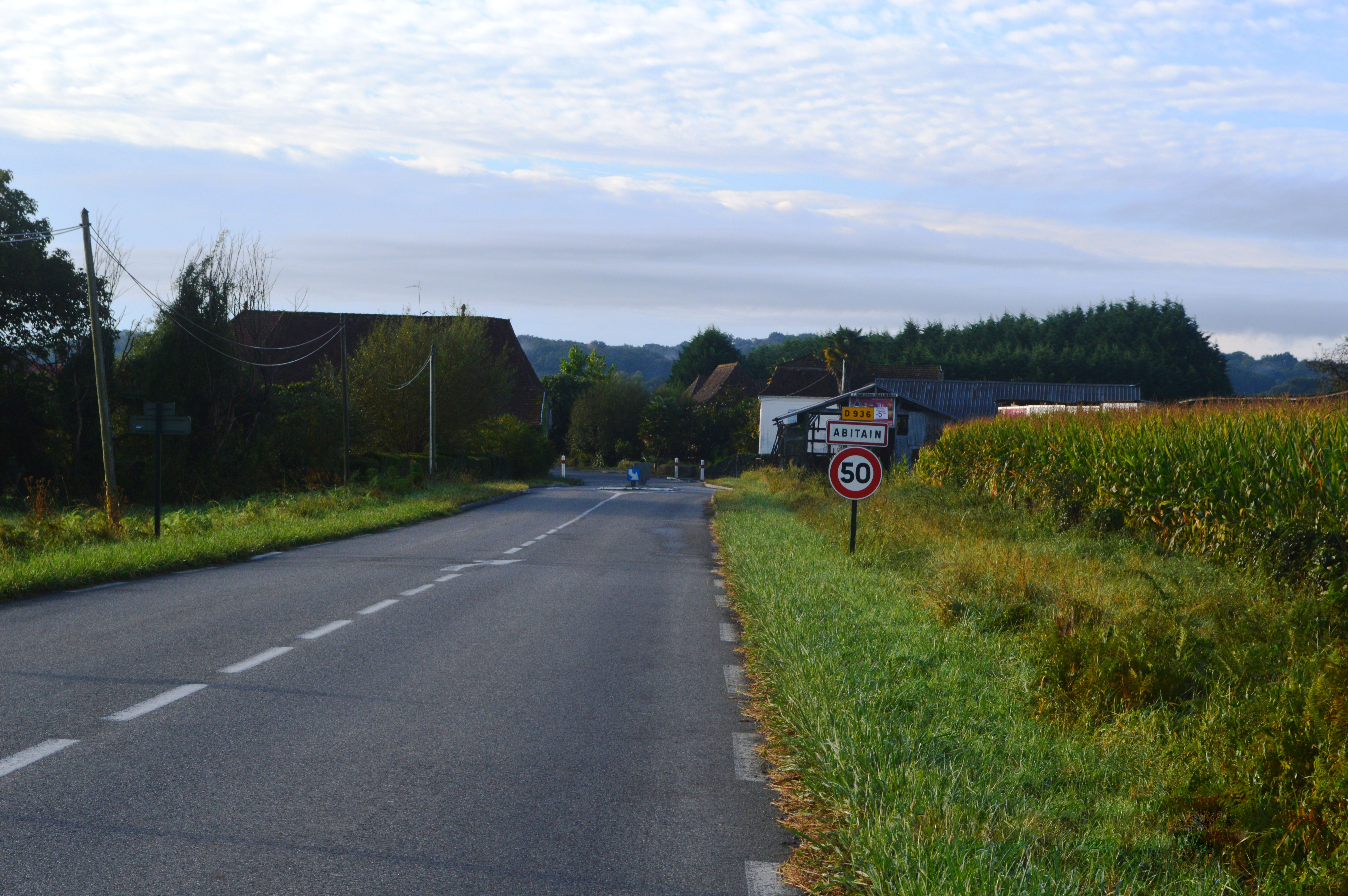 The entry to Abitain